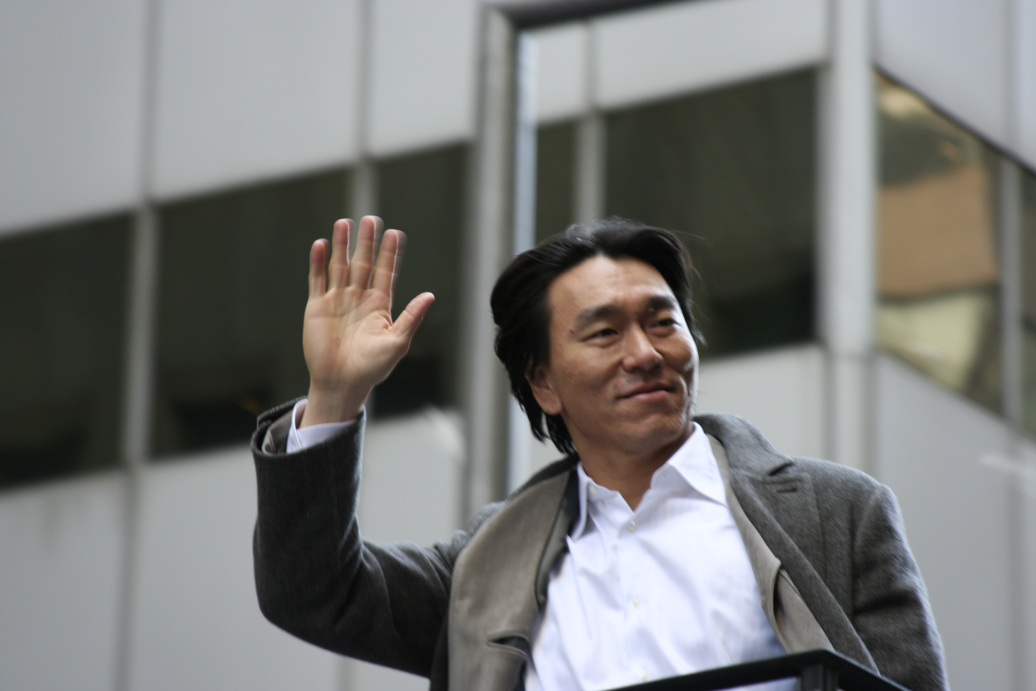 Hideki Matsui